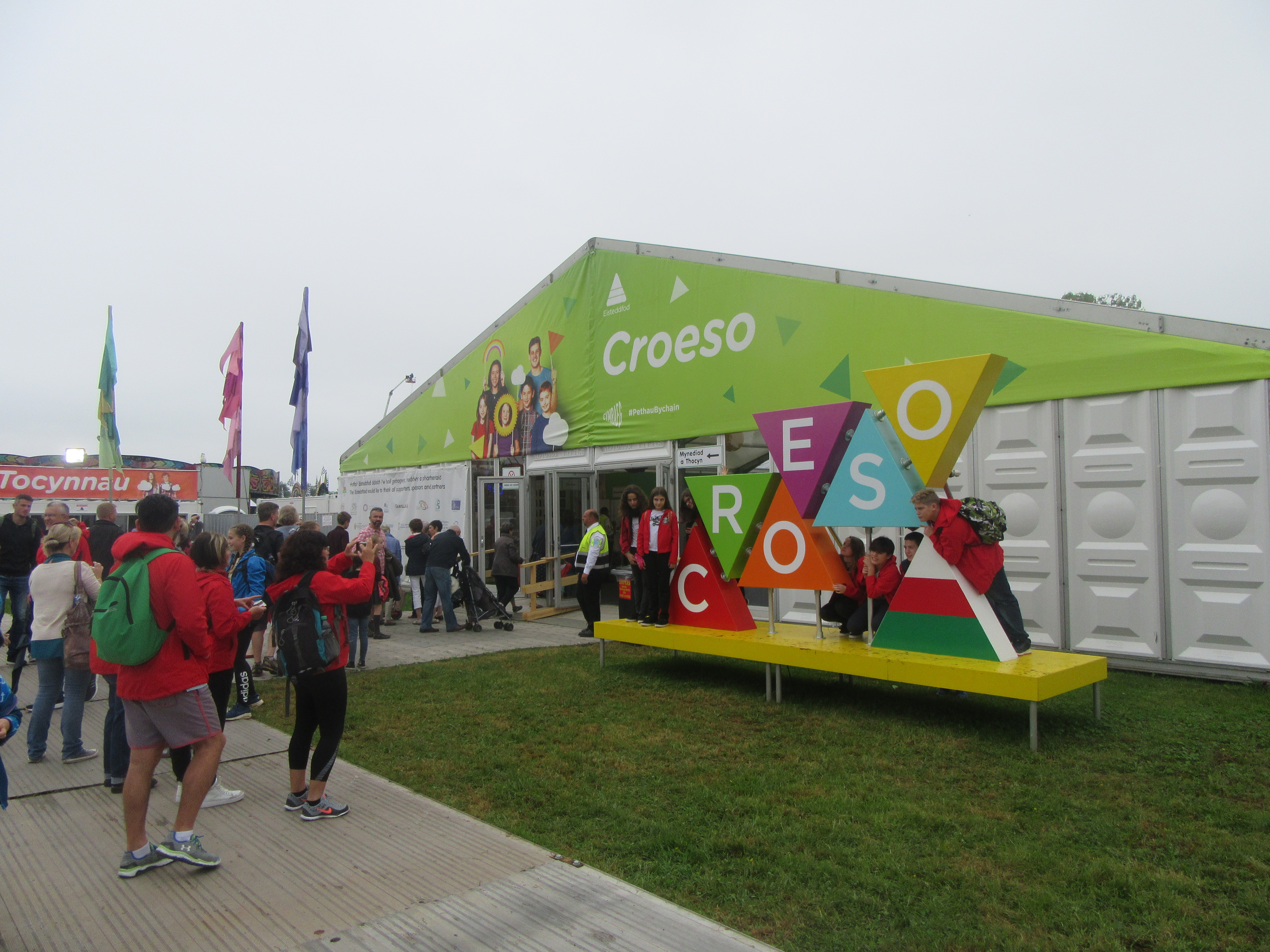 Urdd National Eisteddfod 2017, Bridgend - 29 May - Entrance to the Maes with welcome sign